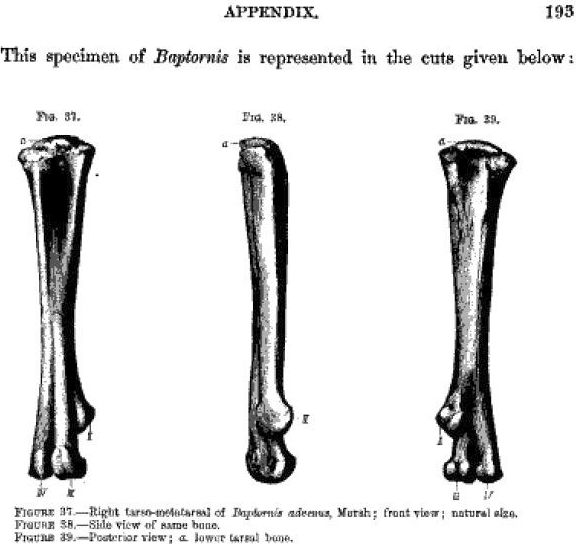 Marsh's figure of the tarsometatarsus of Baptornis advenus was published in 1880. Baptornis was smaller and possibly more primitive than Hesperornis. It also occurs earlier (Santonian) in the Smoky Hill Chalk than does Hesperornis (Campanian).